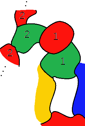 This is an illustration for Kempe's false proof of the four color theorem.